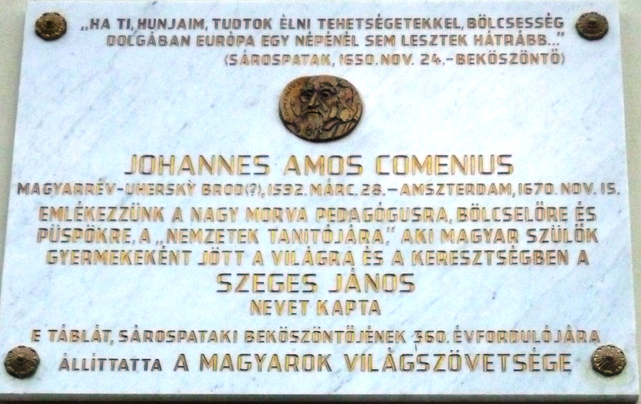 Marble plaque of Comenius in Sárospatak